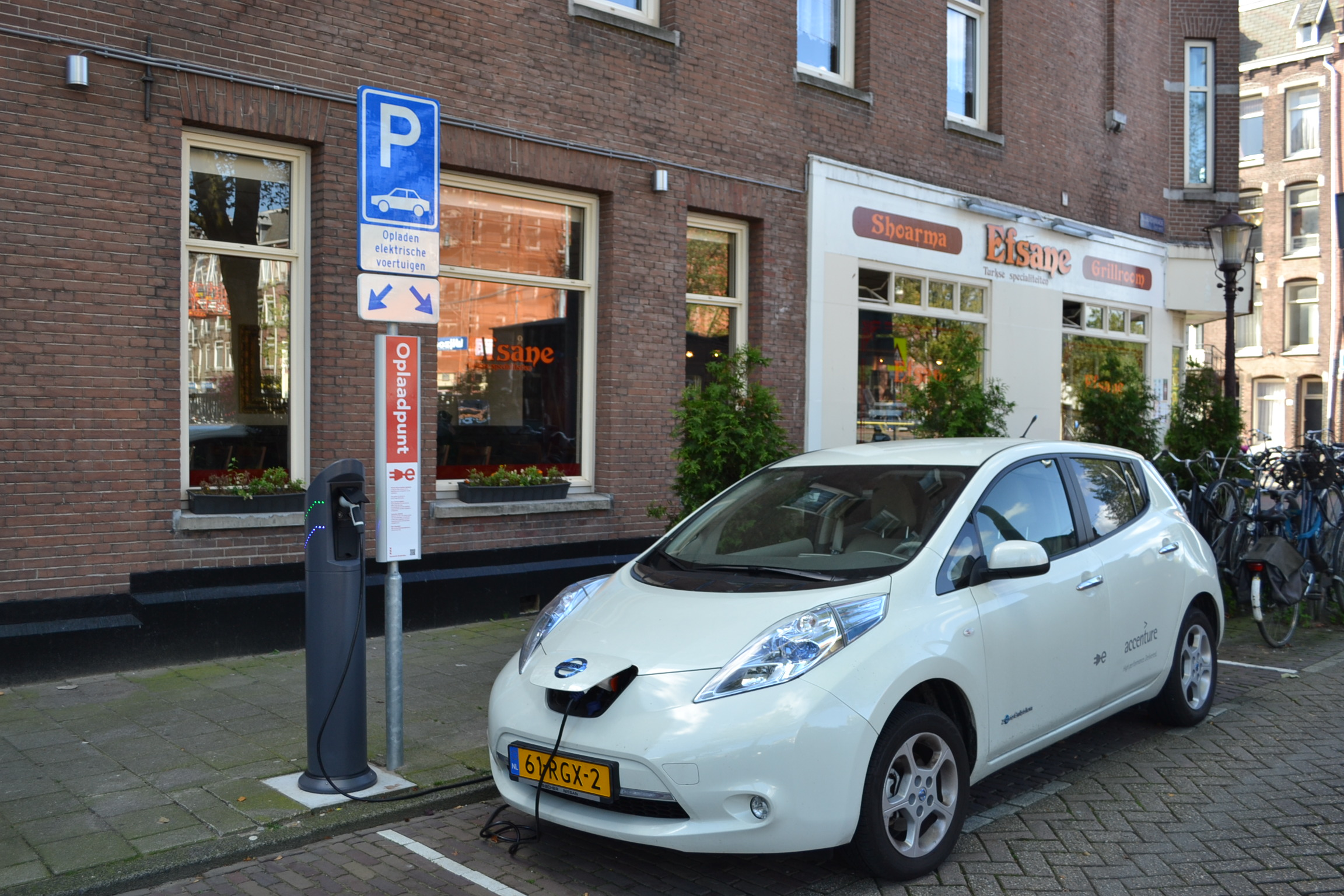 Nissan Leaf recharging in Amsterdam, the Netherlands